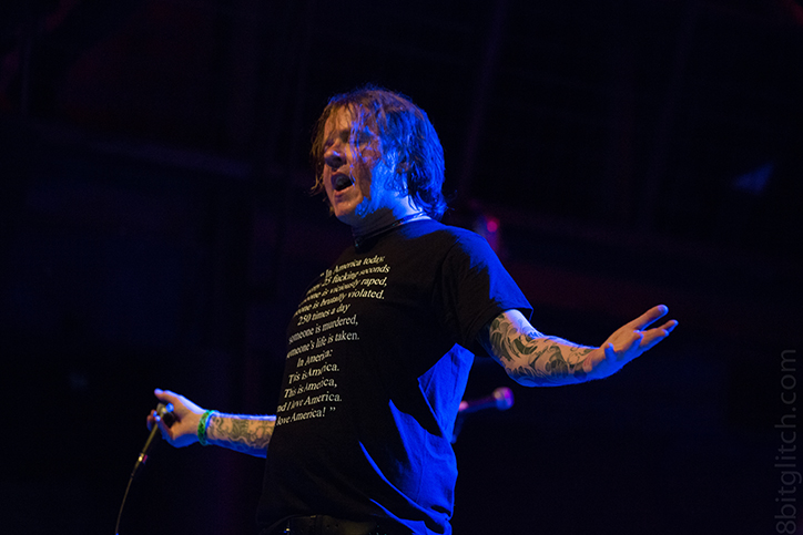 Bell performing with Fear Factory in 2013